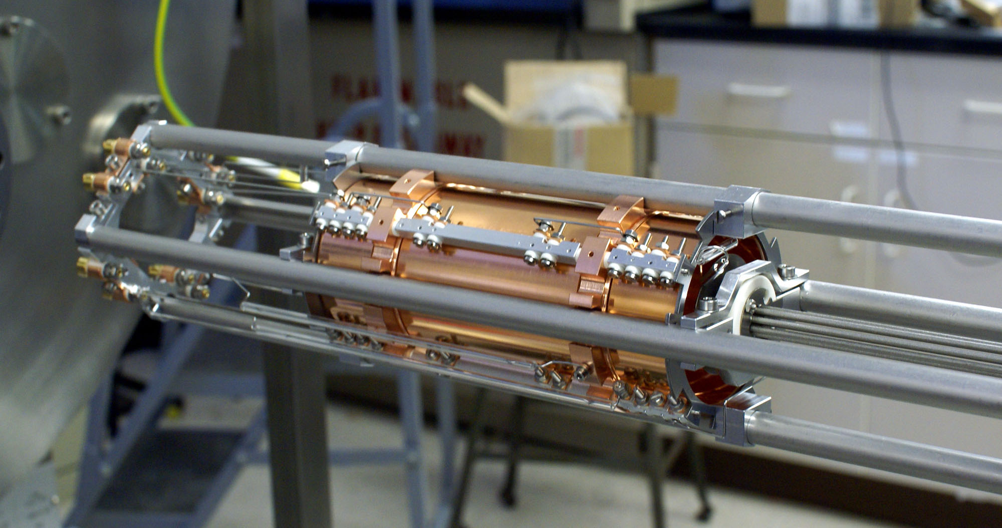 An ICR cell in an LTQ-FT-ICR mass spectrometer from Thermo-Electron. The ICR cell is made of copper plates arranged in a cylinder shape and are normally installed inside the vacuum manifold. An octopole ion guide, passing from right to left, transmits ions through the magnetic field and into the ICR cell.